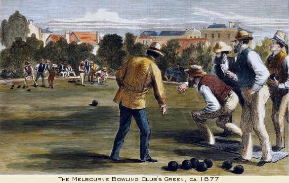 Scene of a bowls match at Melbourne Bowling Club.